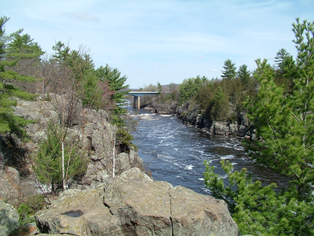 Interstate State Park — Chisago County, Minnesota. Part of the NPS Ice Age National Scientific Reserve.